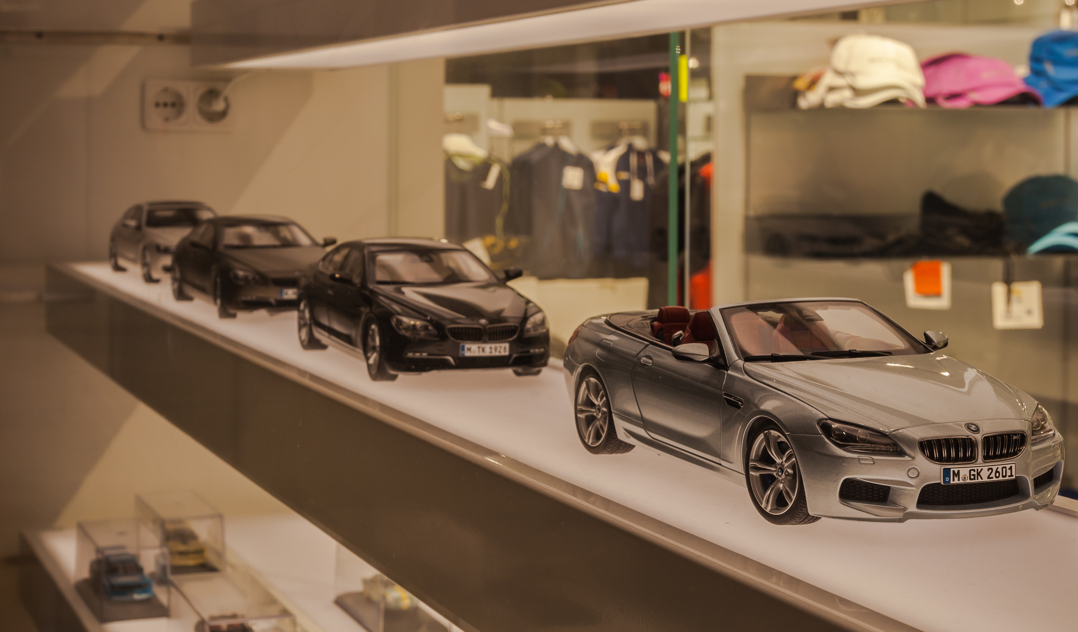 BMW Welt, Munich, Germany